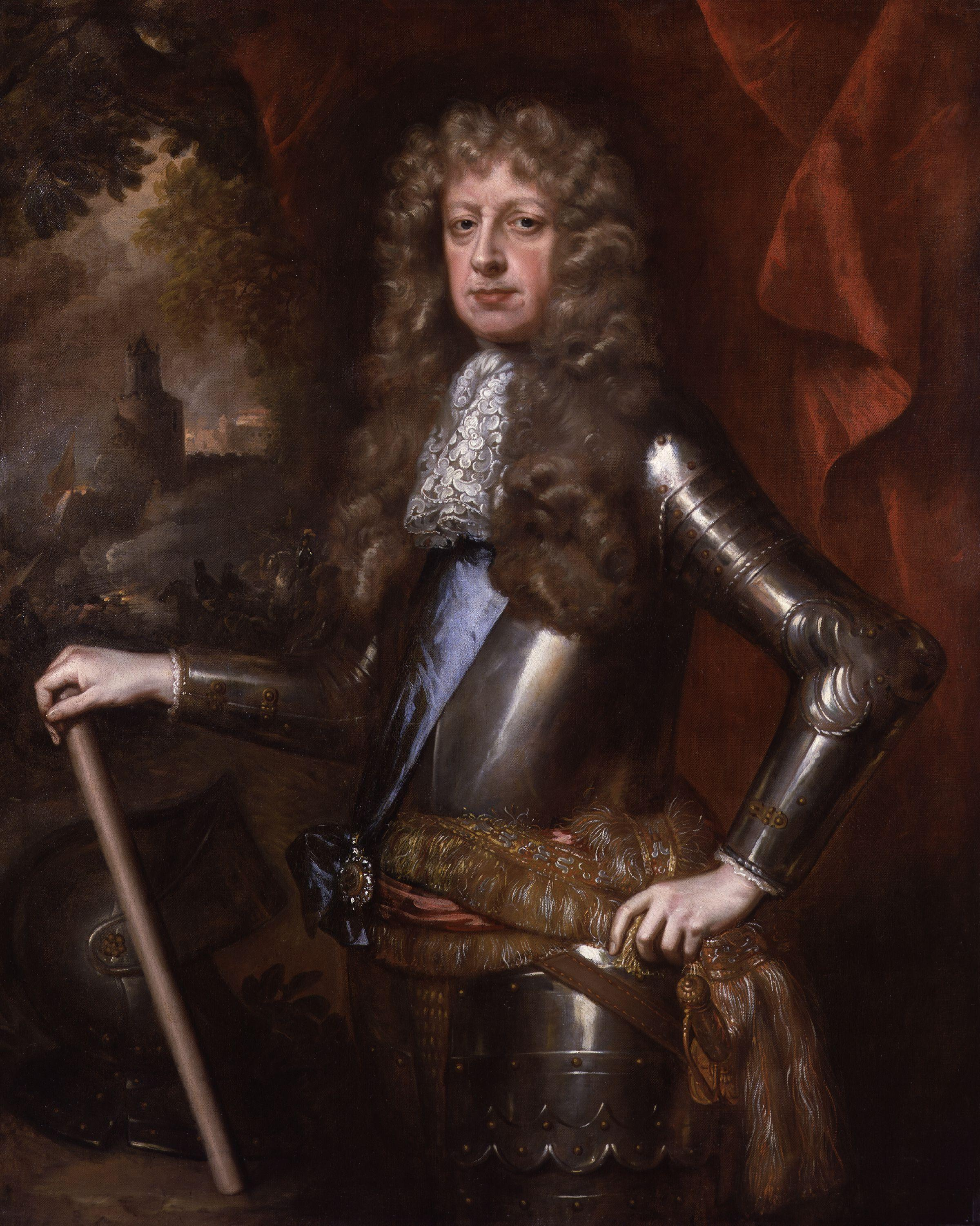 James Butler, 1st Duke of Ormonde, by William Wissing (died 1687). All images in this batch have been confirmed as author died before 1939 according to the official death date listed by the NPG.